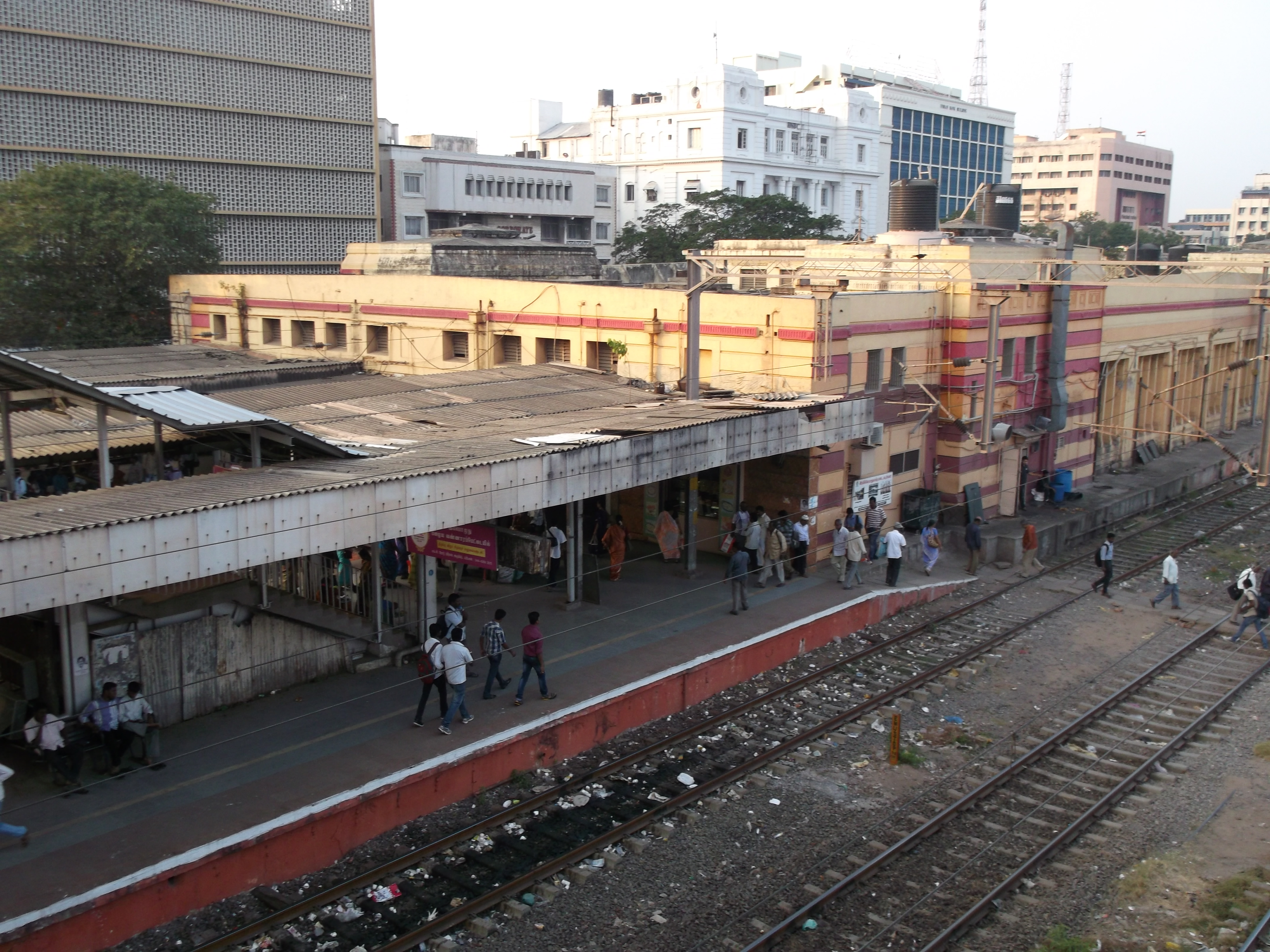 Chennai Suburban Railway, Chennai Beach main building, towards northern side, taken on 28-Jan-2013 at 5.00 pm